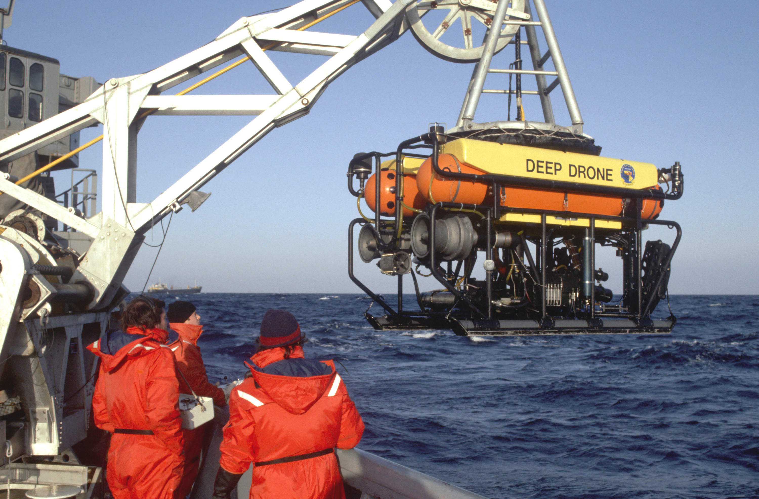 The unmanned submersible Deep Drone is ready for deployment from the fleet tug, USNS NARRAGANSETT (T-ATF 167) during search operations for Korean Airlines Flight 007. All Hands Magazine - July 1984.